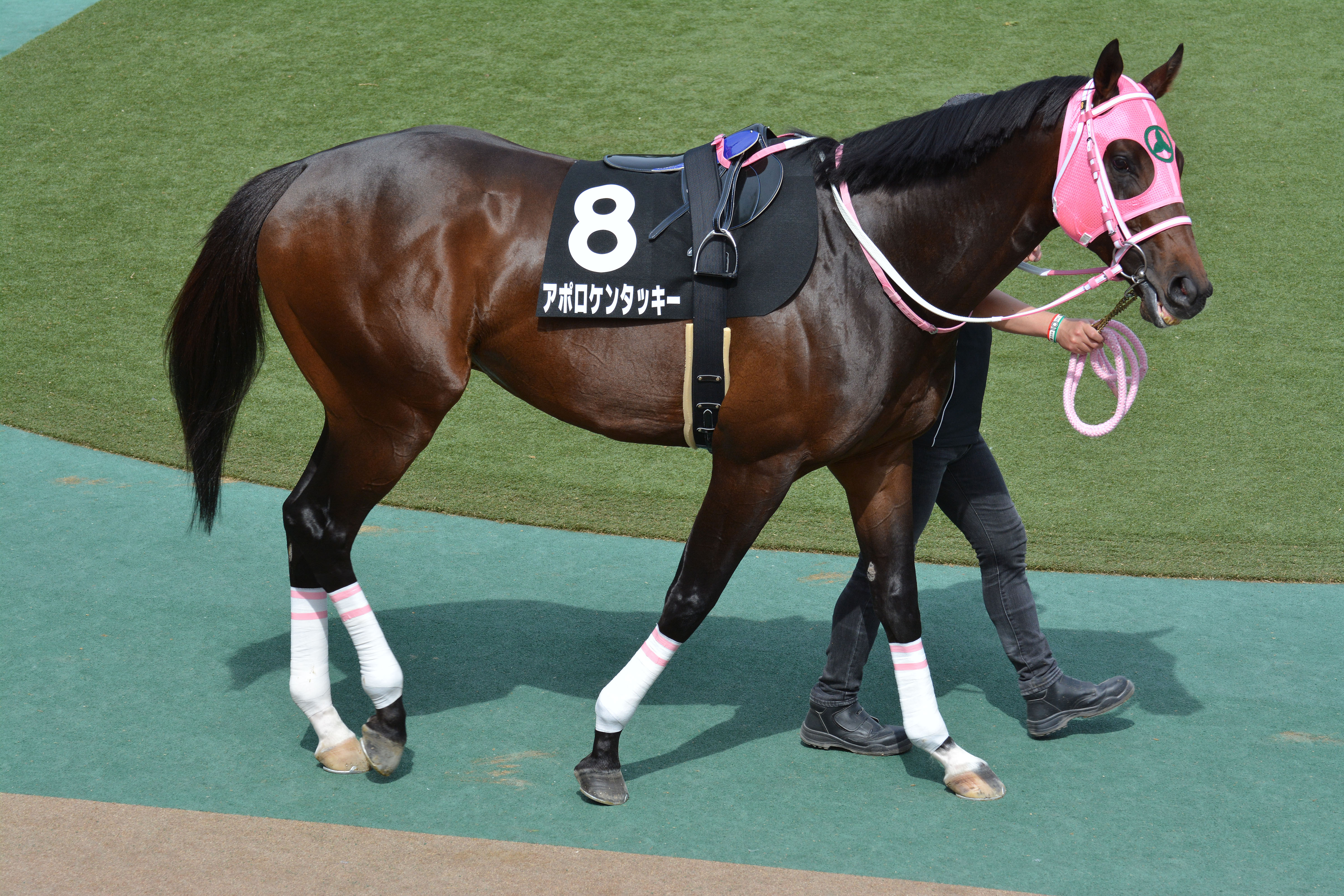 Racehorse ApolloKentucky at Tokyo racecourse(2016-05-08).